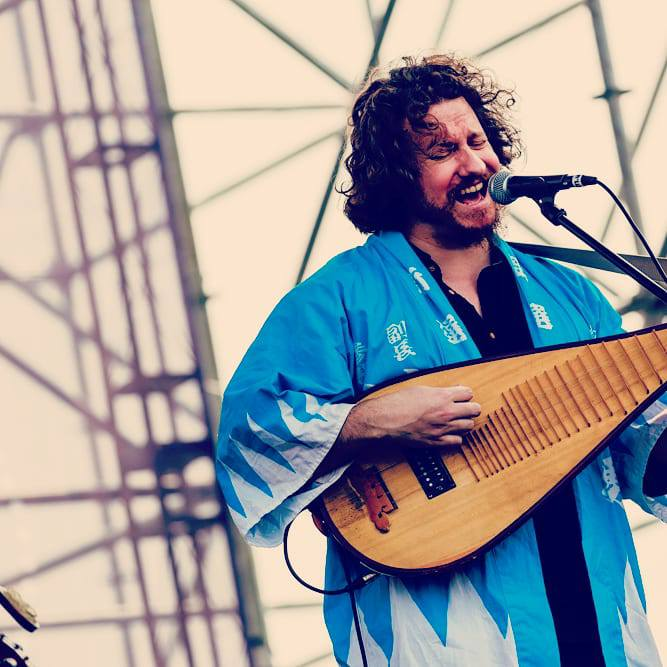 Djang San at the Strawberry Music Festival in Beijing in 2017